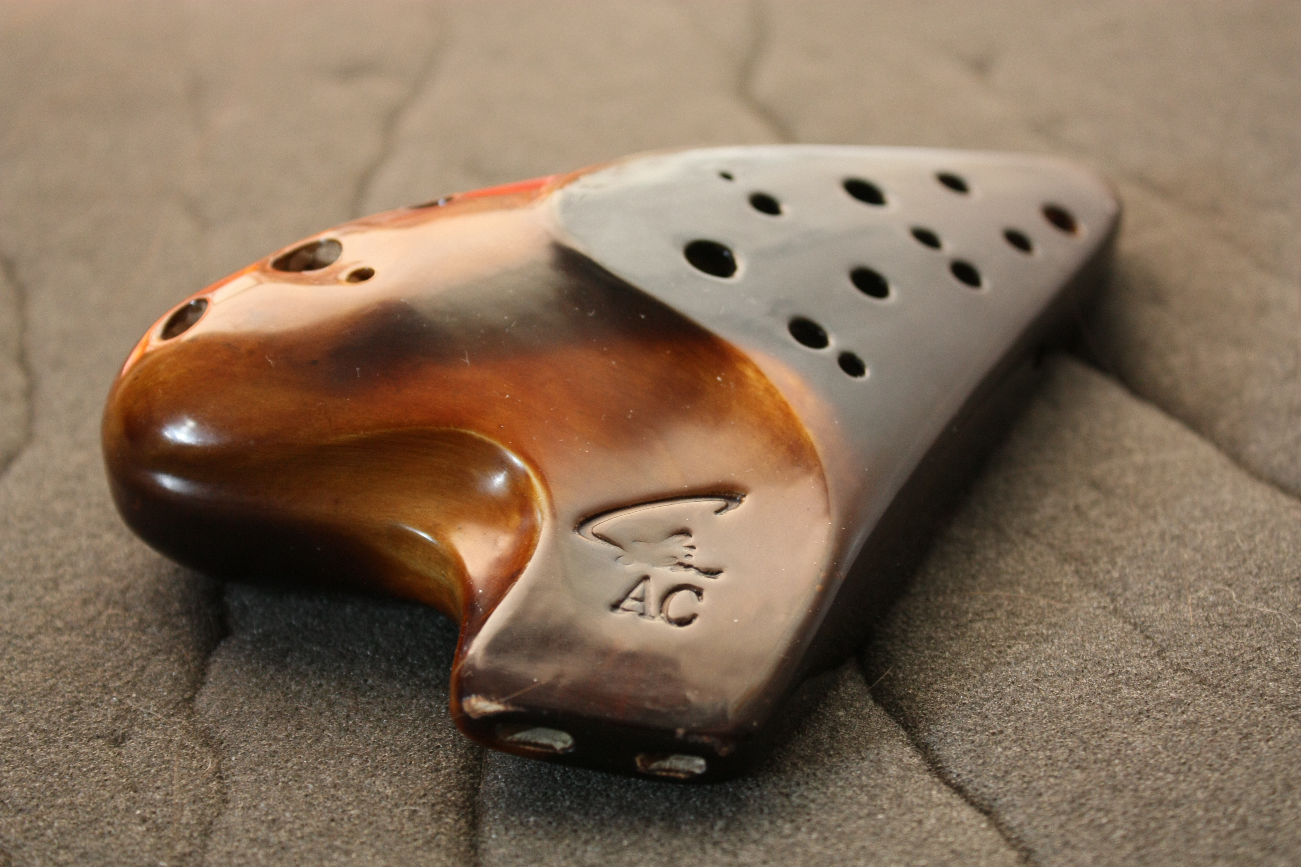 A photograph of the Focalink Double Alto C. The two blow holes in the mouthpiece are clearly visible which gives this ocarina a range of 17 notes from A4 to C6.